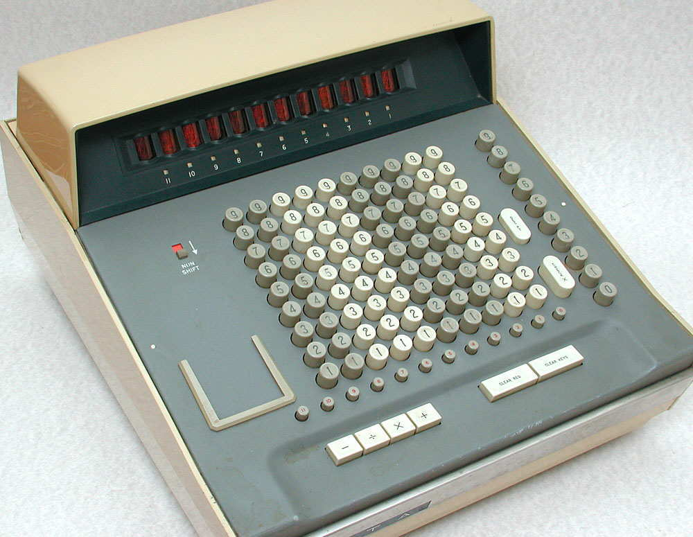 Close up of an Anita Mk VIII calculator. Photograph taken by myself of a machine in my collection.